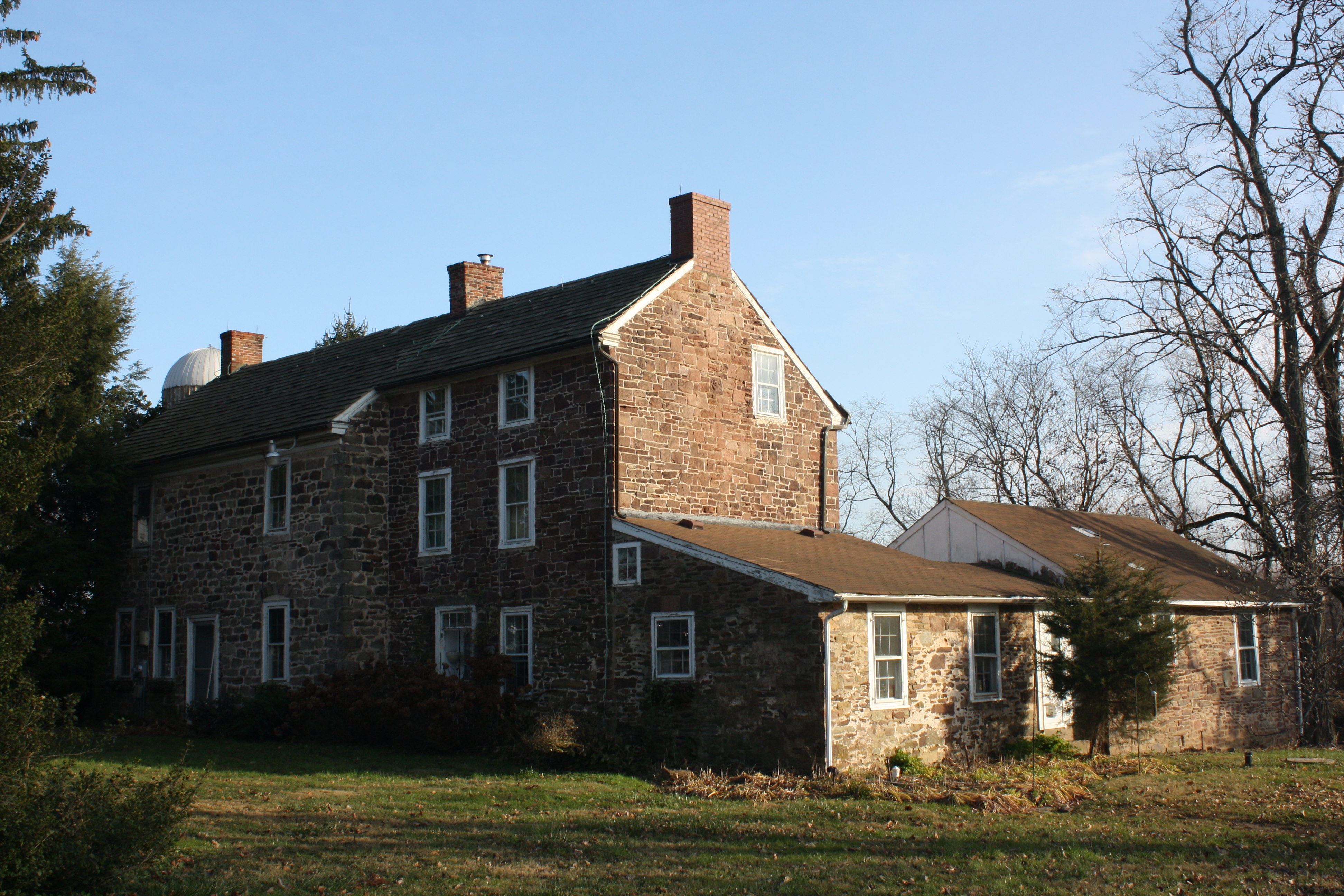 Peter Taylor Farmstead, also known as Shull Farm, is a historic farm and national historic district located at Newtown Township, Bucks County, Pennsylvania. Farmhouse. Object location40° 15′ 16″ N, 74° 56′ 07″ W